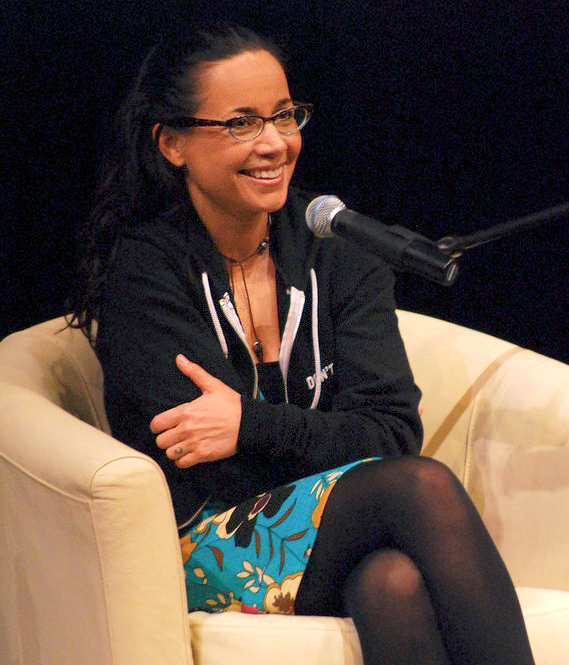 Janeane Garofalo at Bumbershoot 2008